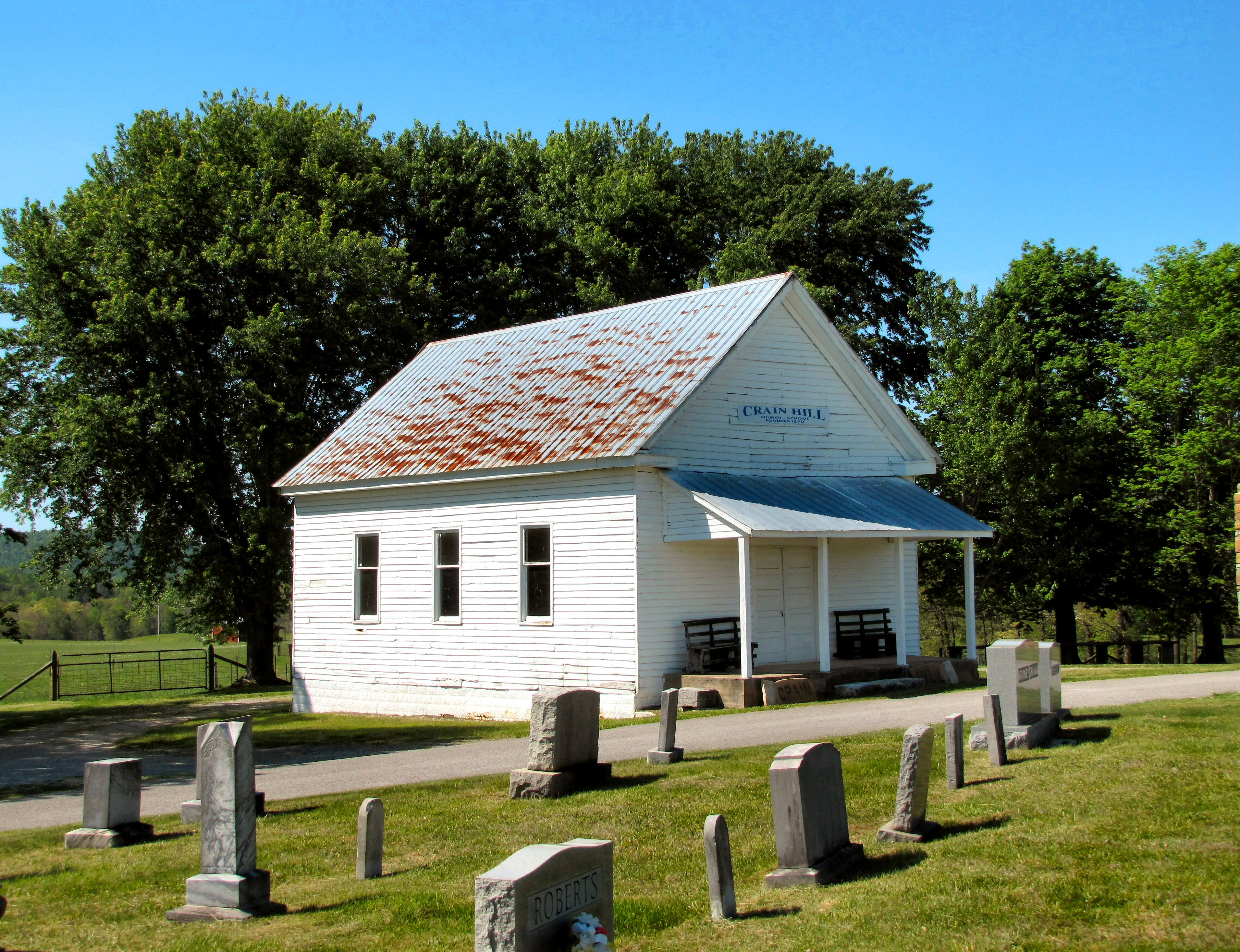 The Crain Hill church and school in Van Buren County, Tennessee, United States, built in 1870, and listed on the National Register of Historic Places.